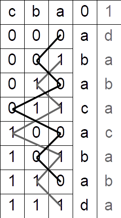 The abacaba pattern appears in binary numerals. The rightmost 0: black. The rightmost 1: grey.